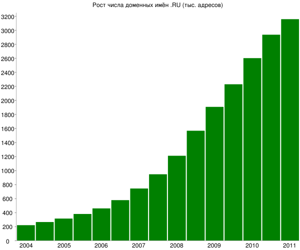 Growth in number of domain names in .RU internet segment since 2004 up to 2011. Data given for every half a year. Data taken from ccTLD site. The caption at the top of the chart means 'Growth in number of domain names in .RU segment (ths of addresses)'.